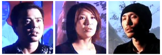 Main members of Project Siren